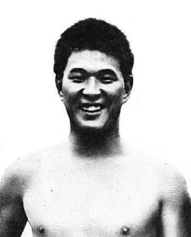 Shigeo Arai